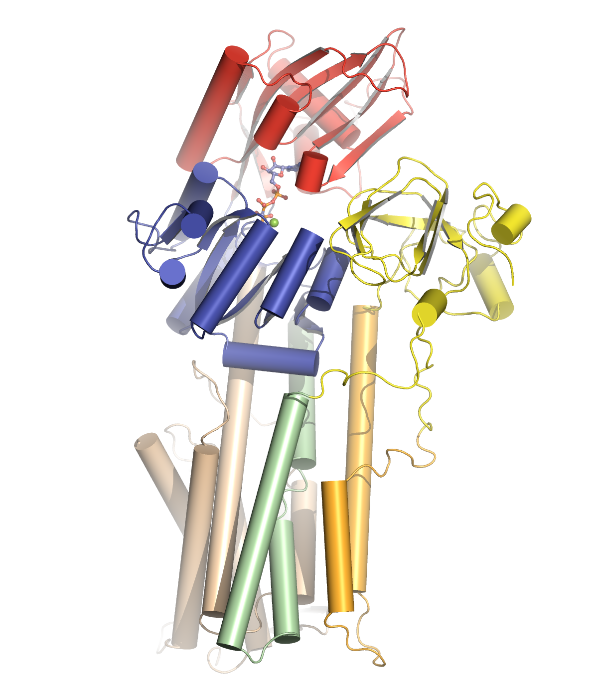 This is a cartoon representation of the proton ATPase AHA2 from Arabidopsis thaliana based on the pdb-file 3b8c.pdb